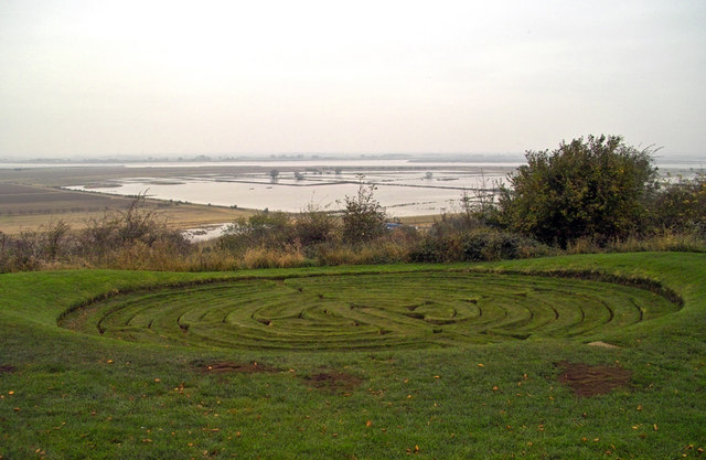 Julian's Bower - Alkborough Turf Maze The turf maze and beyond the flooded Alkborough flats.